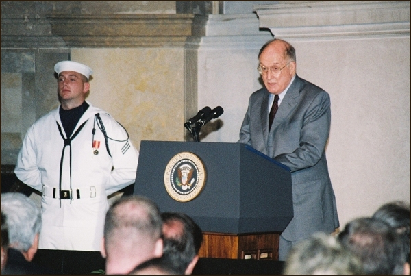 Chief Justice William Rehnquist speaks at the rededication of the National Archives Rotunda.